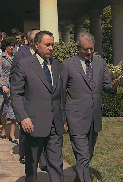 Cyrus Vance (right) hosts Andrei Gromyko, Foreign Minister of the Soviet Union, during his visit to the US on September 30, 1978 [colors slightly enhanced]